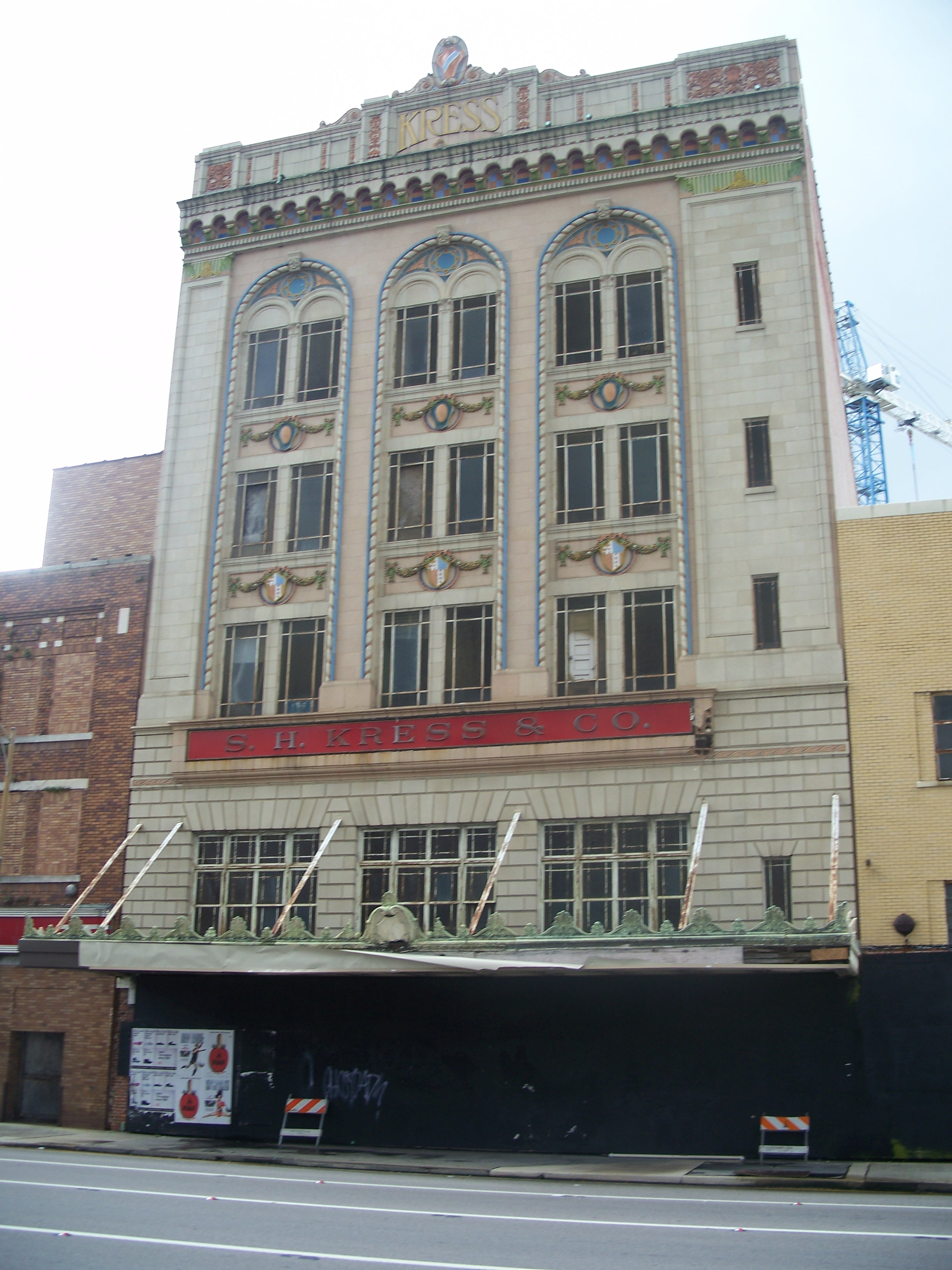 Old S. H. Kress and Company building in downtown Tampa, Florida